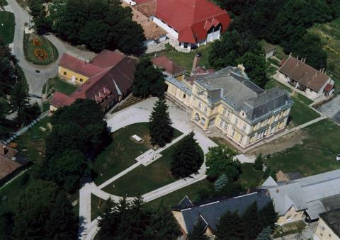 Öreglak, Hungary, aerialphotography (Jankovich Mansion)